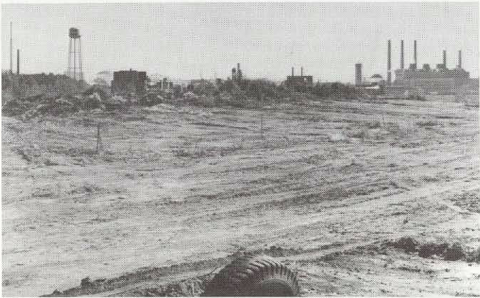 A rubbish pile in Medford, Massachusetts in 1972 as the site was cleared for the construction of Wellington station and yard